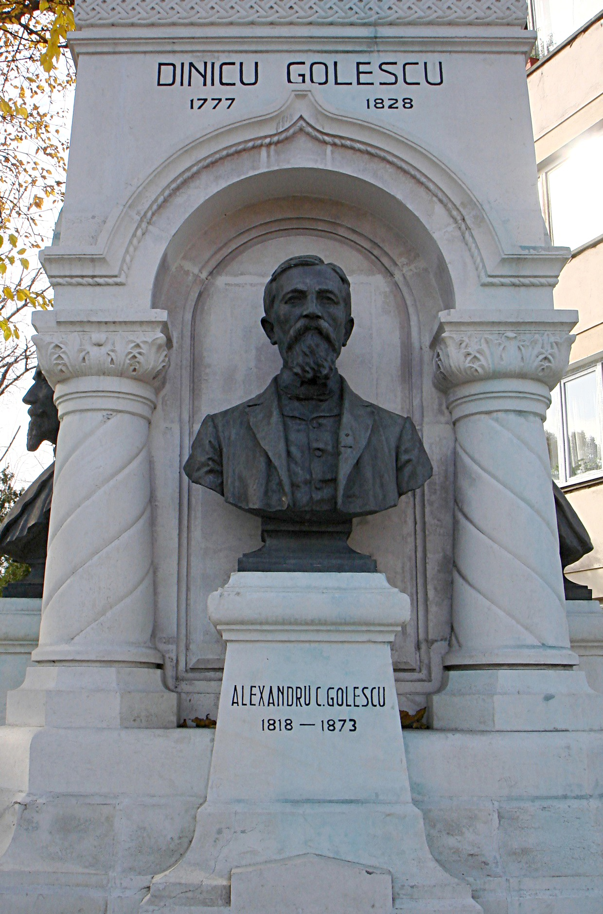 Bust of Alexandru C. Golescu, element of the Monument of Dinicu Golescu in Bucharest